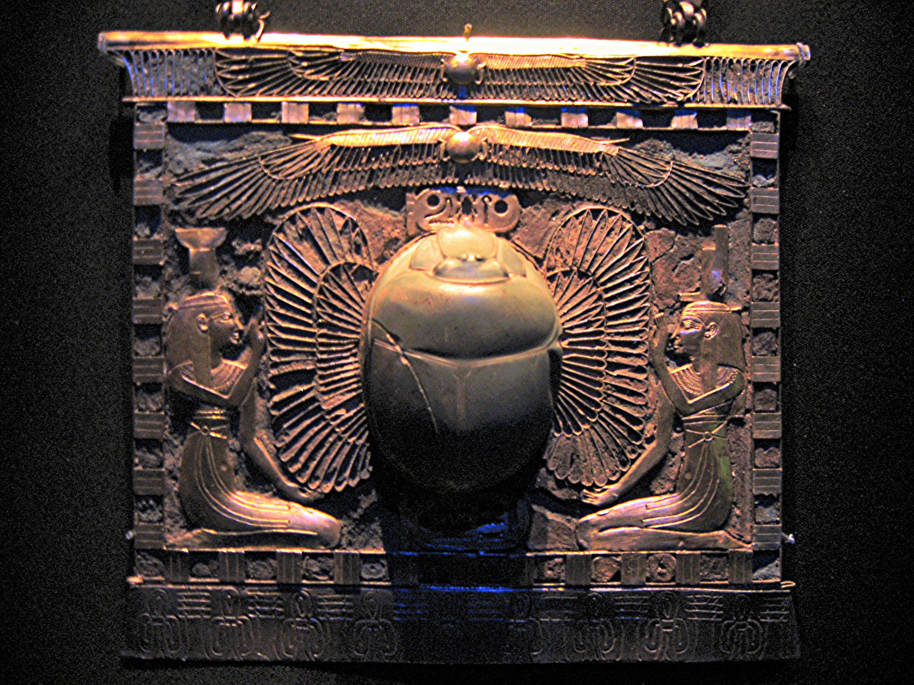 The scarab's underside features chapter 30 of the Book of the Dead to protect pharaoh Shoshenq II's heart. The pectoral, overall, has the form of a shrine. Shoshenq II's cartouche appears between the scarab and the winged sun disk above it. Goddesses kneel on either side of the scarab. This photo was taken at the King Tut exhibition at the Pacific Science Center in Seattle, Washington State, USA...in 2012, not 2010.